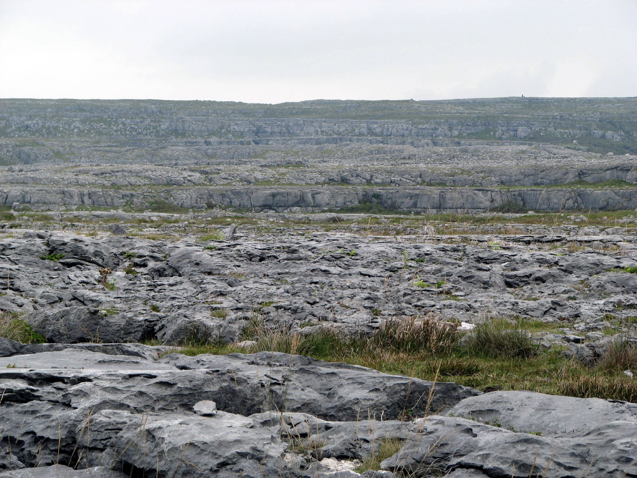 "Only grass and solid rock" – The Burren, Co. Clare, Ireland.